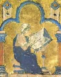 Image of William of Tyre writing his history, from a 13th century Old French translation